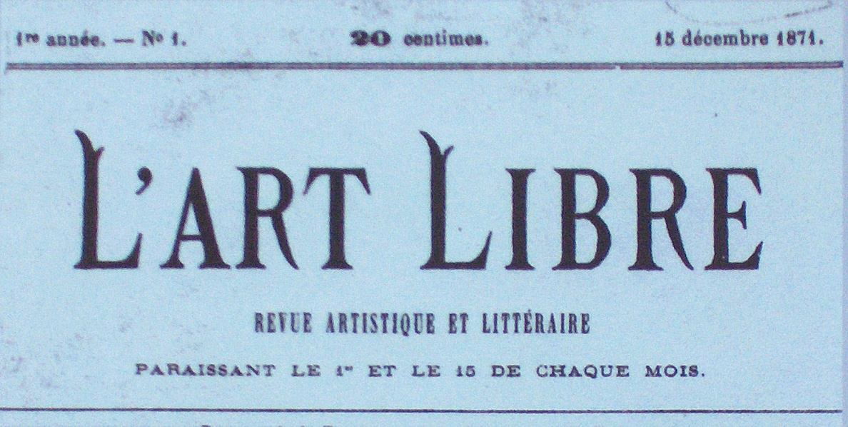 "L'Art Libre", literair en kunstzinnig tijdschrift; eerste nummer 15 december 1871; medewerkers waren : Charles Baudelaire, Champfleury, Louis Deprez, Diderot, Léon Dommartin, Gevaert, Hagemans, Ernest d'Hervilly, Graham, Arsène Houssaye, Hout, Emile Leclercq, Camille Lemonnier, Henri Liesse, Jean Rousseau, Franz Servais, E.Thammer